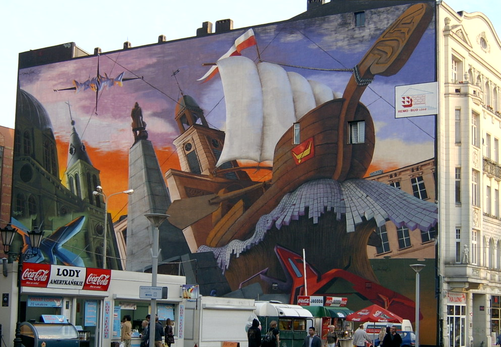 Painting of Design Futura group on Piotrkowska Street in Łódź